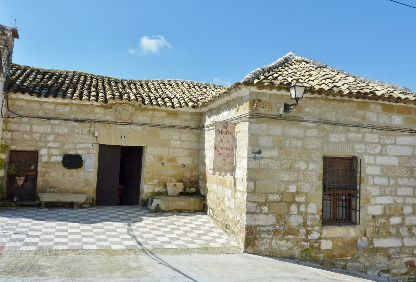 cdcdcwdcwdc